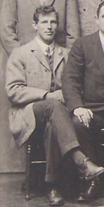 William Tyrrell with the British Isles, later the British and Irish Lions, rugby union team on their tour of South Africa in 1910